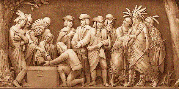 "William Penn and the Indians" - William Penn is shown at center with the Delaware Indians at the time of the Treaty of Shackamaxon. This treaty formalized the purchase of land in Pennsylvania and cemented an amicable relationship between the Quakers and the Indians for almost a hundred years. Penn was the last figure on which Brumidi worked.